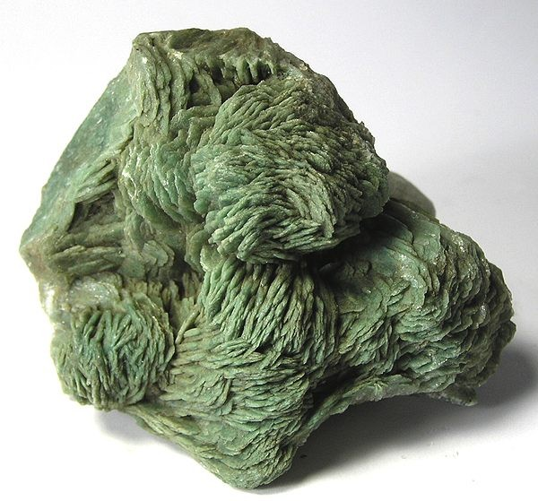 Stilbite-Ca, Celadonite Locality: Nasik District, Maharashtra, India (Locality at ) Size: 5.9 x 5.3 x 2.8 cm. Stilbite takes on this very different-looking green color with mineral inclusions (due to celadonite in this case), so that you are left with familiar-looking zeolite crystallography, but of a very unfamiliar color.